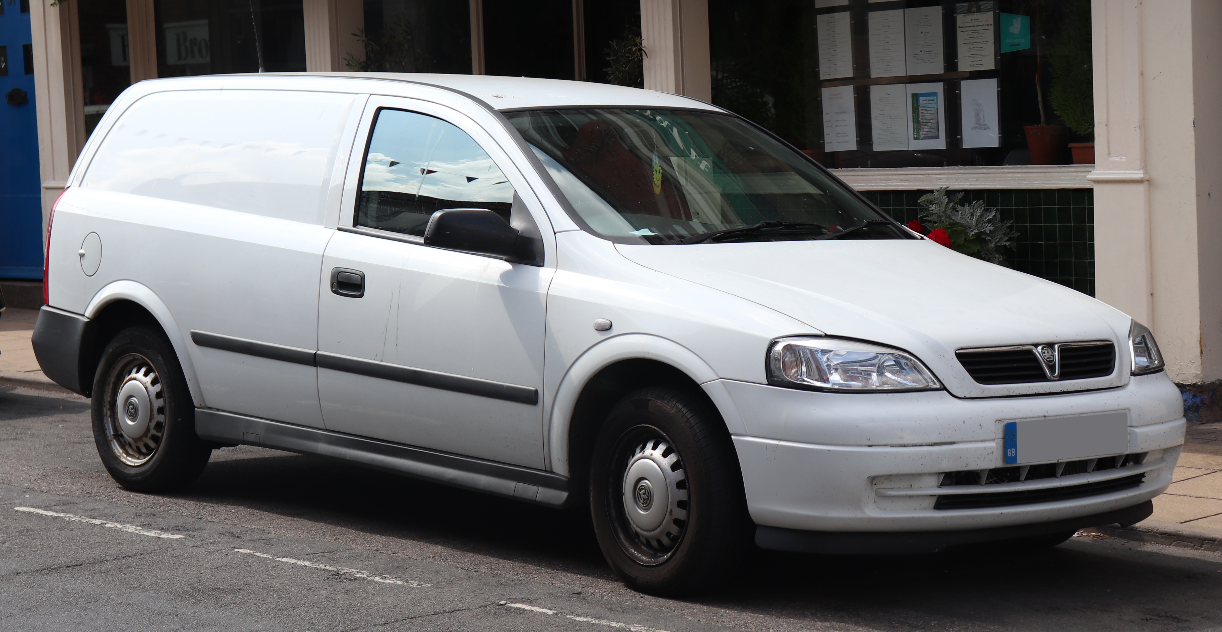 2004 Vauxhall Astravan Envoy CDTi 1.7 Front Taken in Warwick